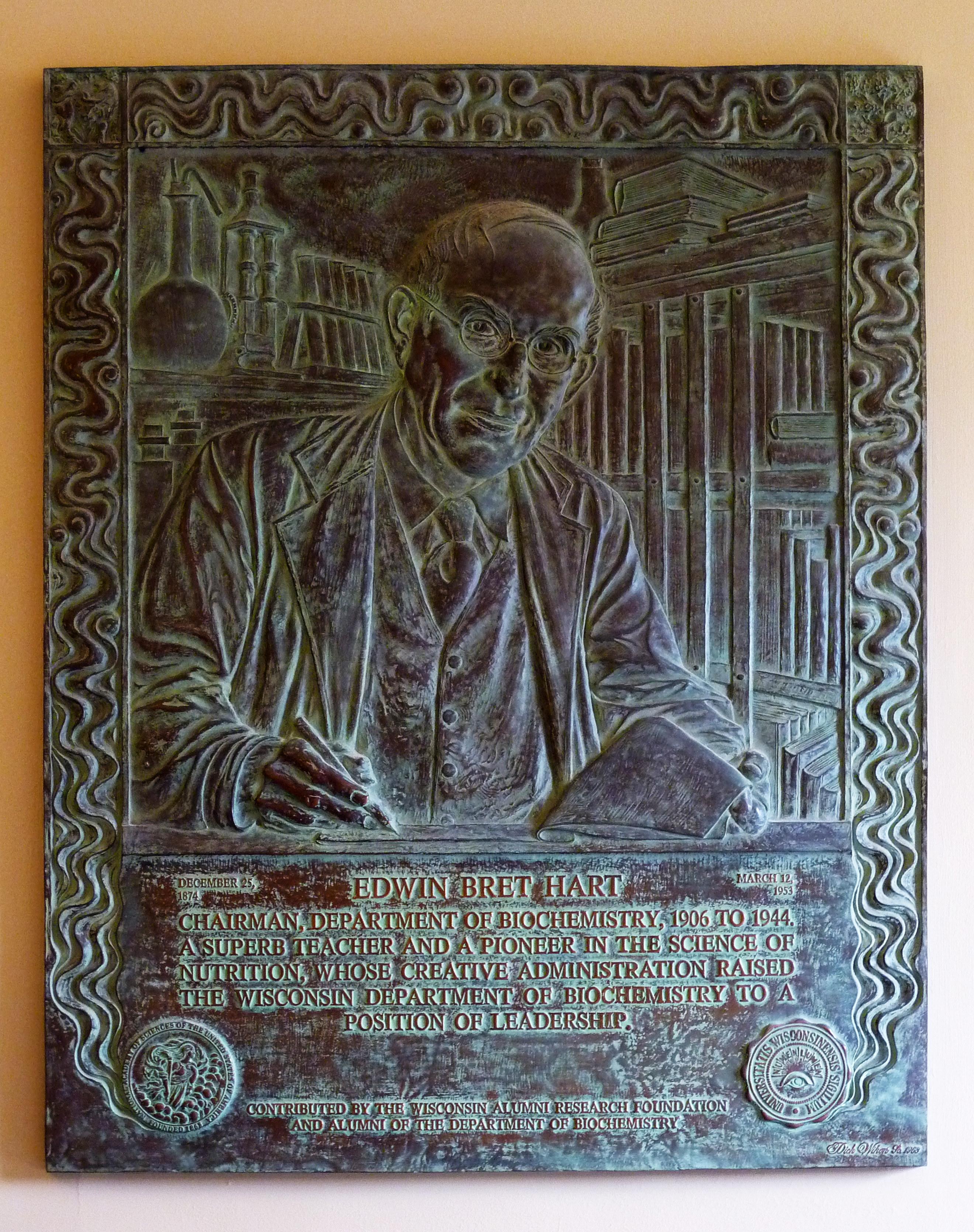 Memorial plaque (1968) by sculptor Dick Wikens honoring Edwin Bret Hart in the foyer of the Biochemistry Department at the University of Wisconsin-Madison. The Biochemistry Department is housed in the landmarked Agricultural Chemistry Building in the Henry Mall Historic District. Facing this plaque is one honoring Stephen Moulton Babcock.